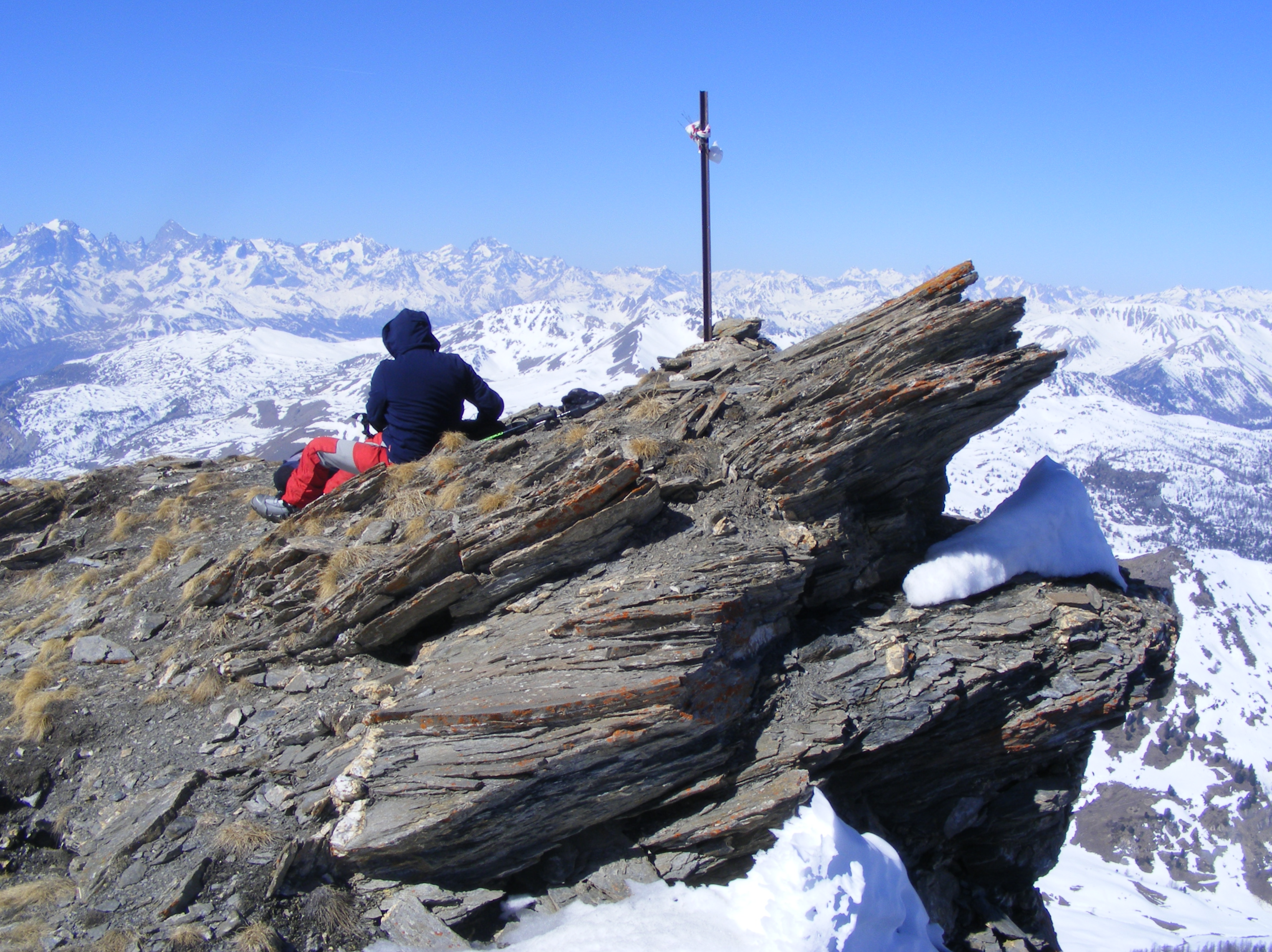 Cima Dorlier (Cottian Alps, Italy) the mountain's summmit